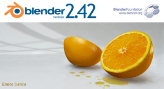 Open Screen of Blender 2.42.